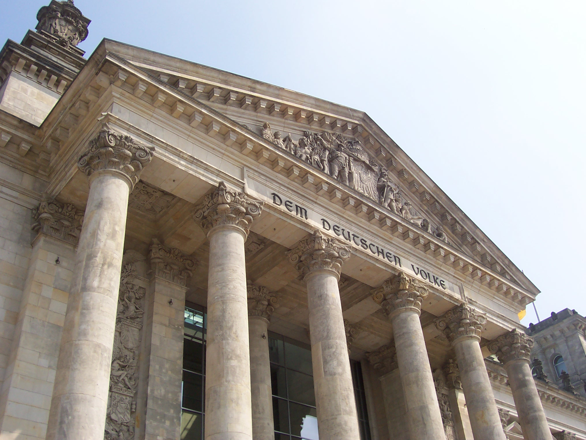 The Reichstag parlementary building in Germany. (Other Pictures: Reichstag) Front of the Building with "The German People" sign